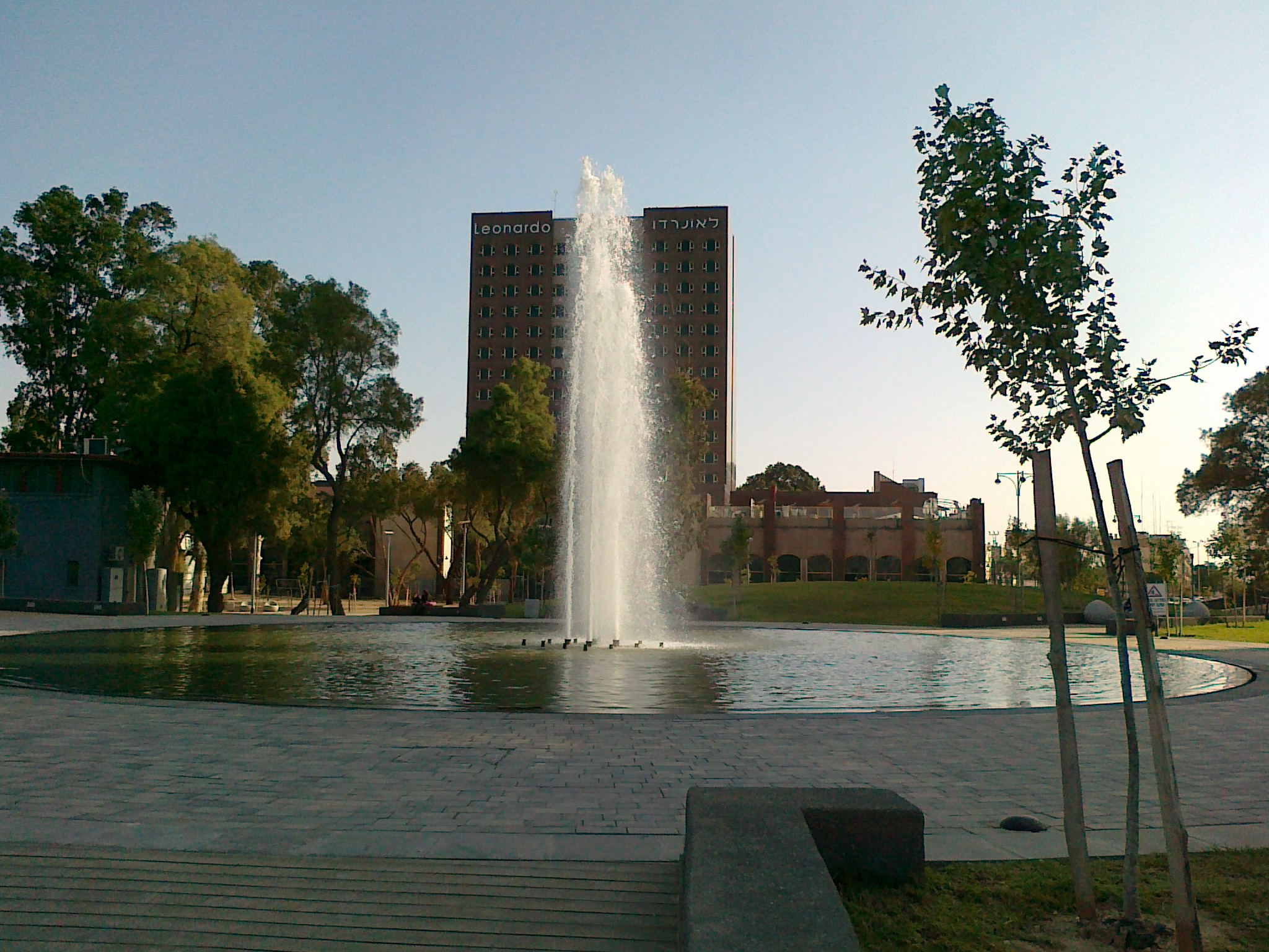 Fountain in Shafrir garden Beersheba 2013